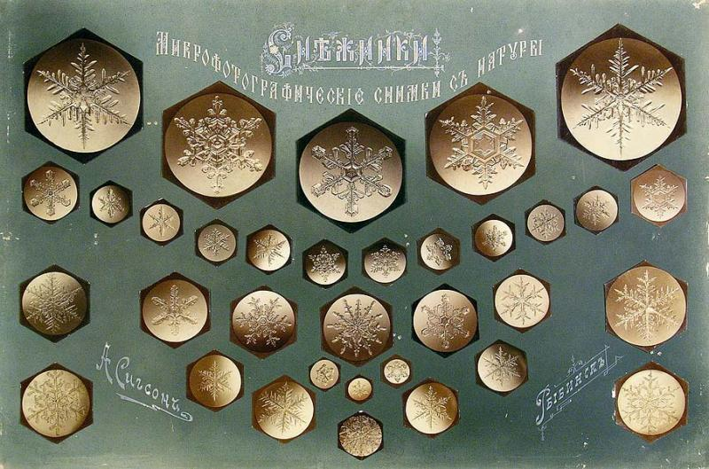 Photos of Snowflakes. A. Sigson